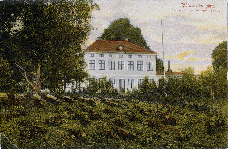 Riddersviks gård, Hässelby villastad, på ett vykort från 1907, som visar huvudbyggnaden från sjösidan. Bilden är tagen före ombyggnaden. Vid denna tid tillhörde Riddersviks gård Järfälla socken. Nuvarande adress är Riddersviks allé 11, Hässelby.